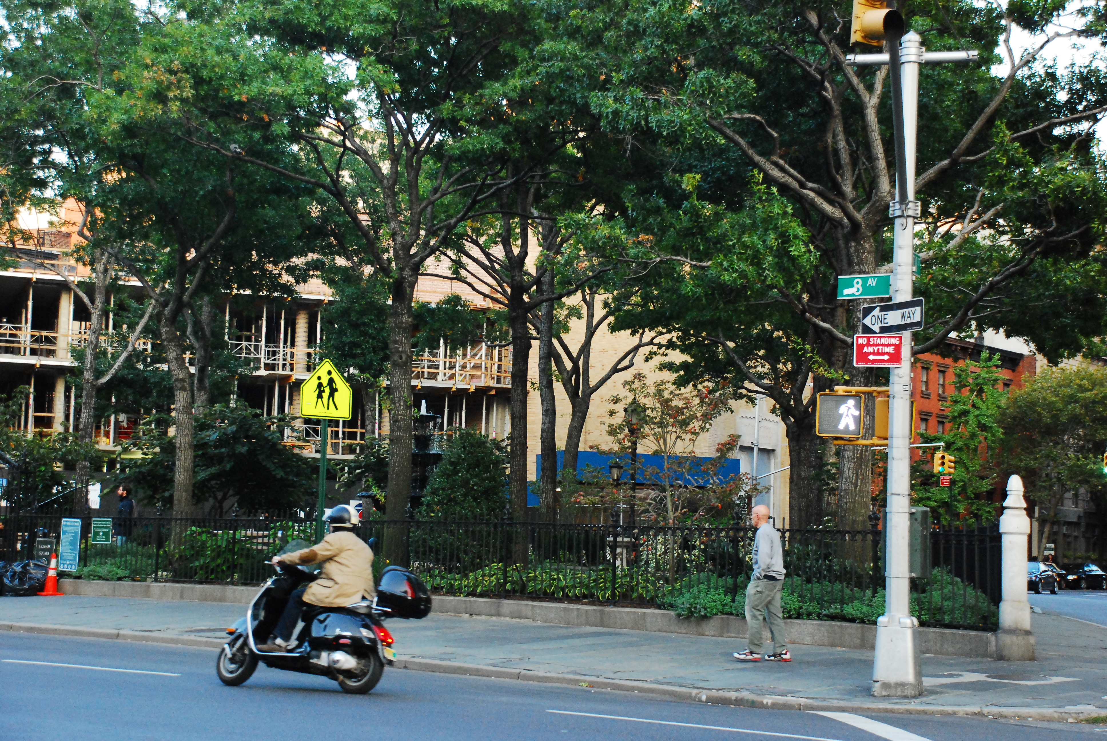 This photo is of Wikis Take Manhattan goal code R20, Pocket park.